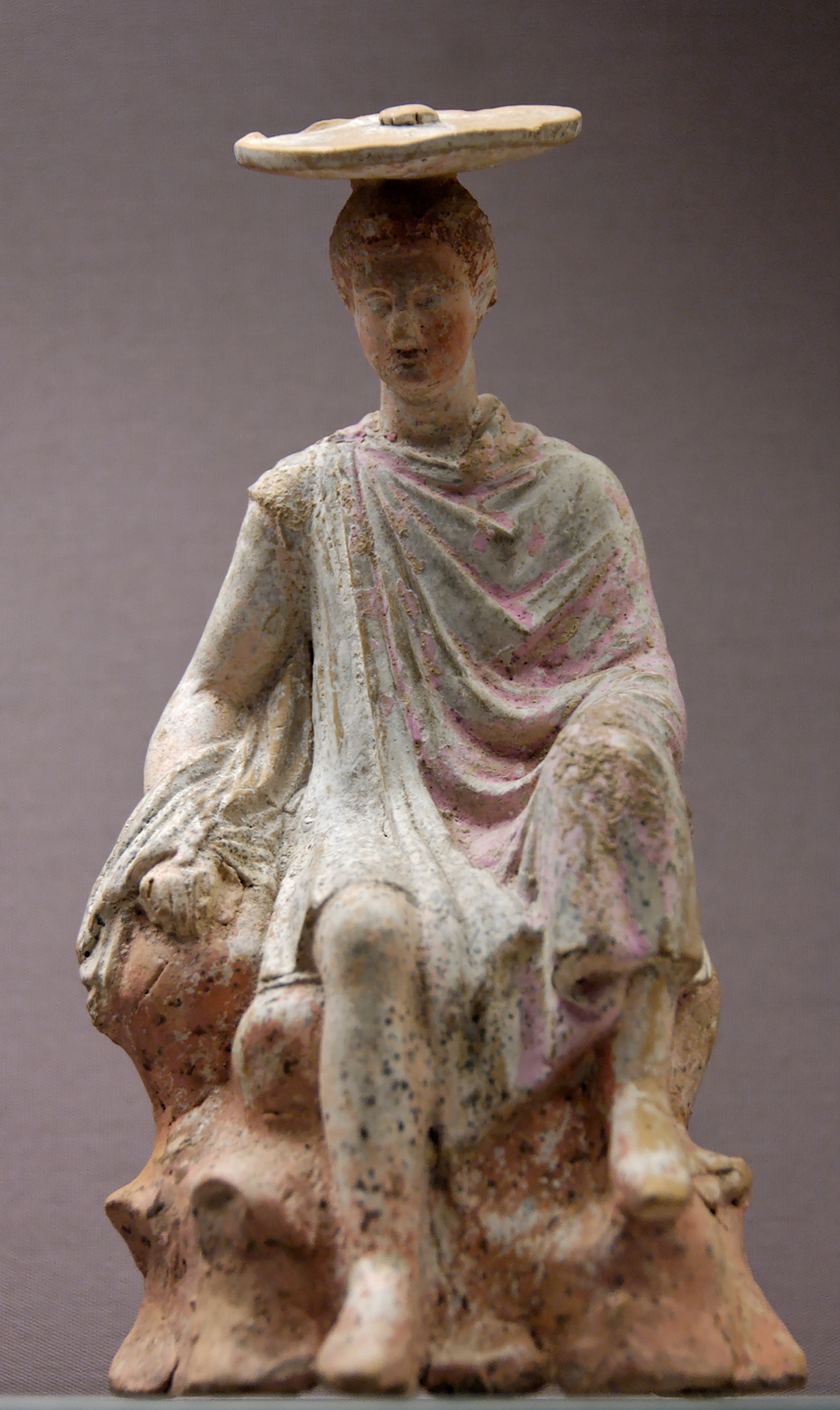 Young boy seated on a rock. Terracotta, made in Boeotia, ca. 300 BC. From Tanagra (?).